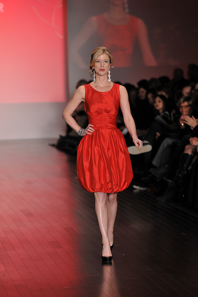 TV host Anna Wallner, wearing an outfit by Pink Tartan, modelling at the Heart Truth Red Dress fashion show.